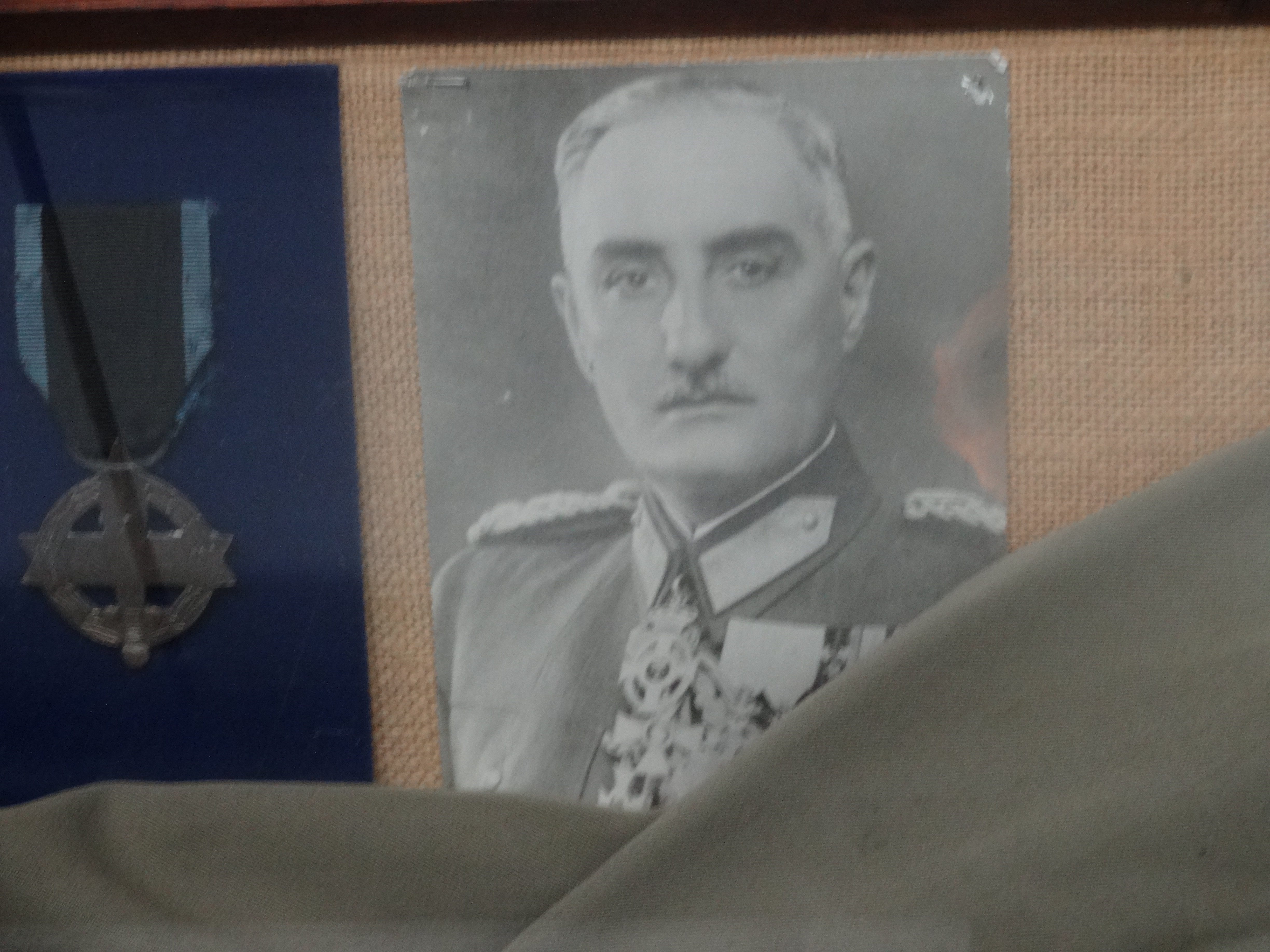 Exposition of War Museum in Athens. A stand dedicated to Major-General Ioannis Tsangaridis, with the uniform, awards and personal weapons of the General.